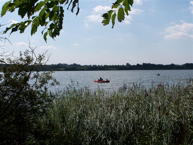 Southern part of the Lanker See looking southwest. Holstein Switzerland, Schleswig-Holstein, Germany